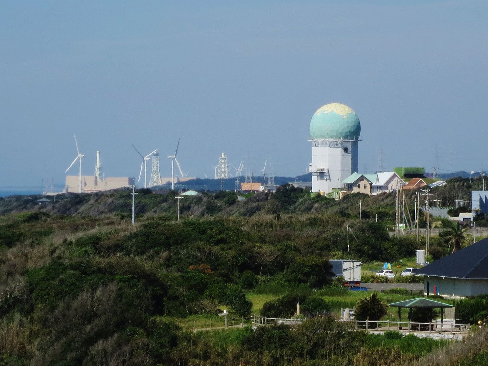 Hamaoka Nuclear Power Plant, Omaezaki Wind Power Station Phase 1 and Japan Air Self-Defense Force Omaezaki Sub Base J/FPS-2 (view from Omaezaki Lighthouse).